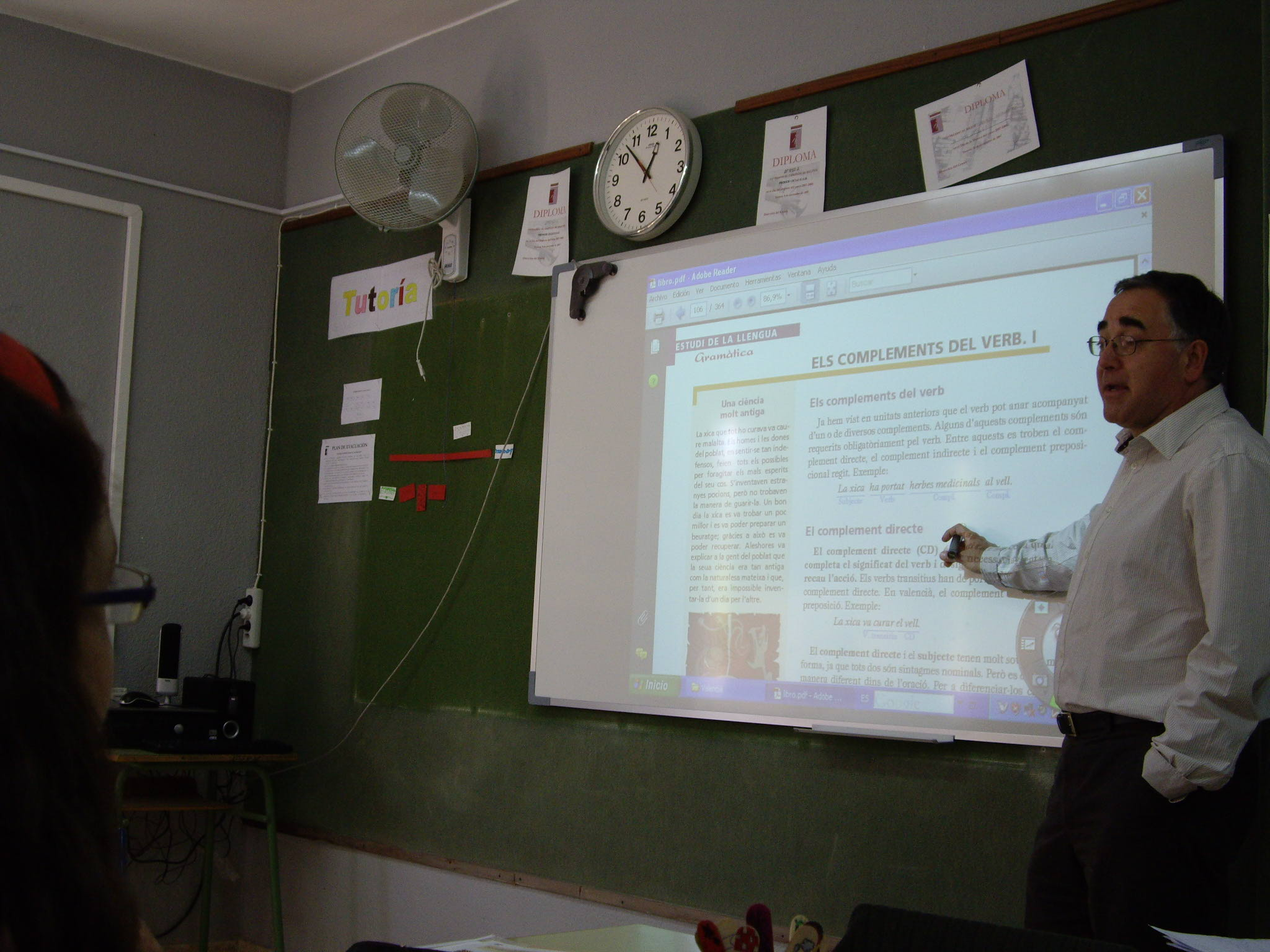 PDiP